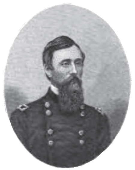 John Beatty (Ohio)